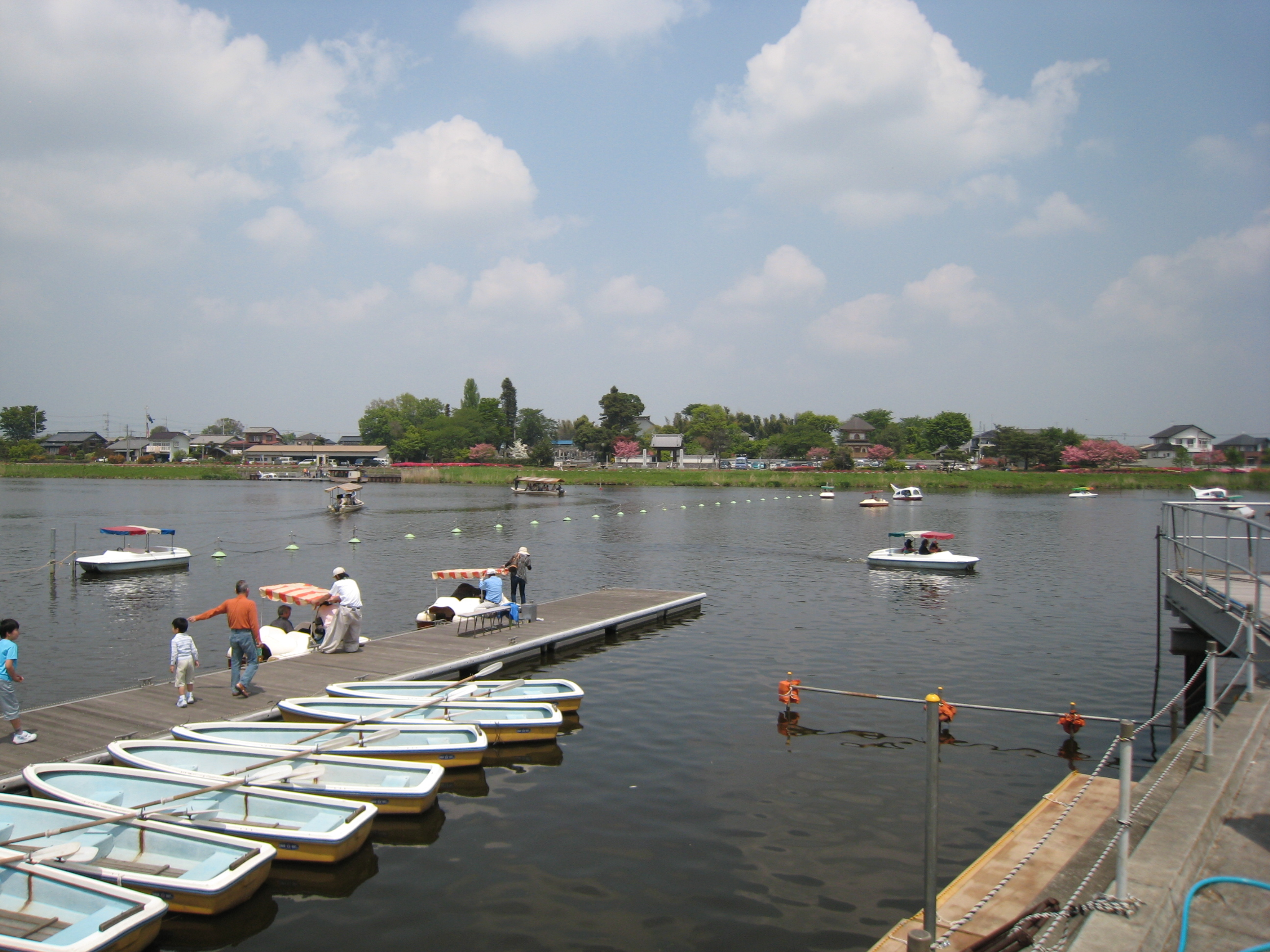 Ferry Boats at Jonuma in Tatebayashi, Gunma Prefecture,Japan.